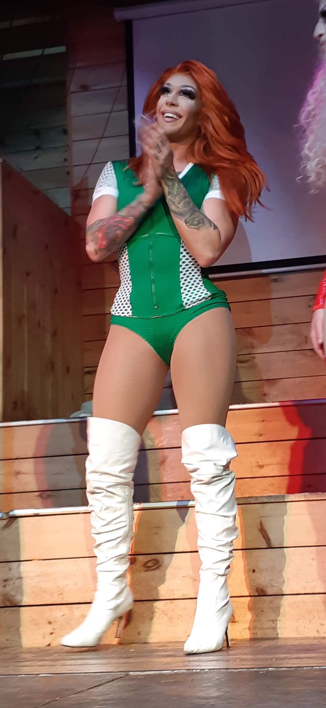 Kameron Michaels performing in 2018.